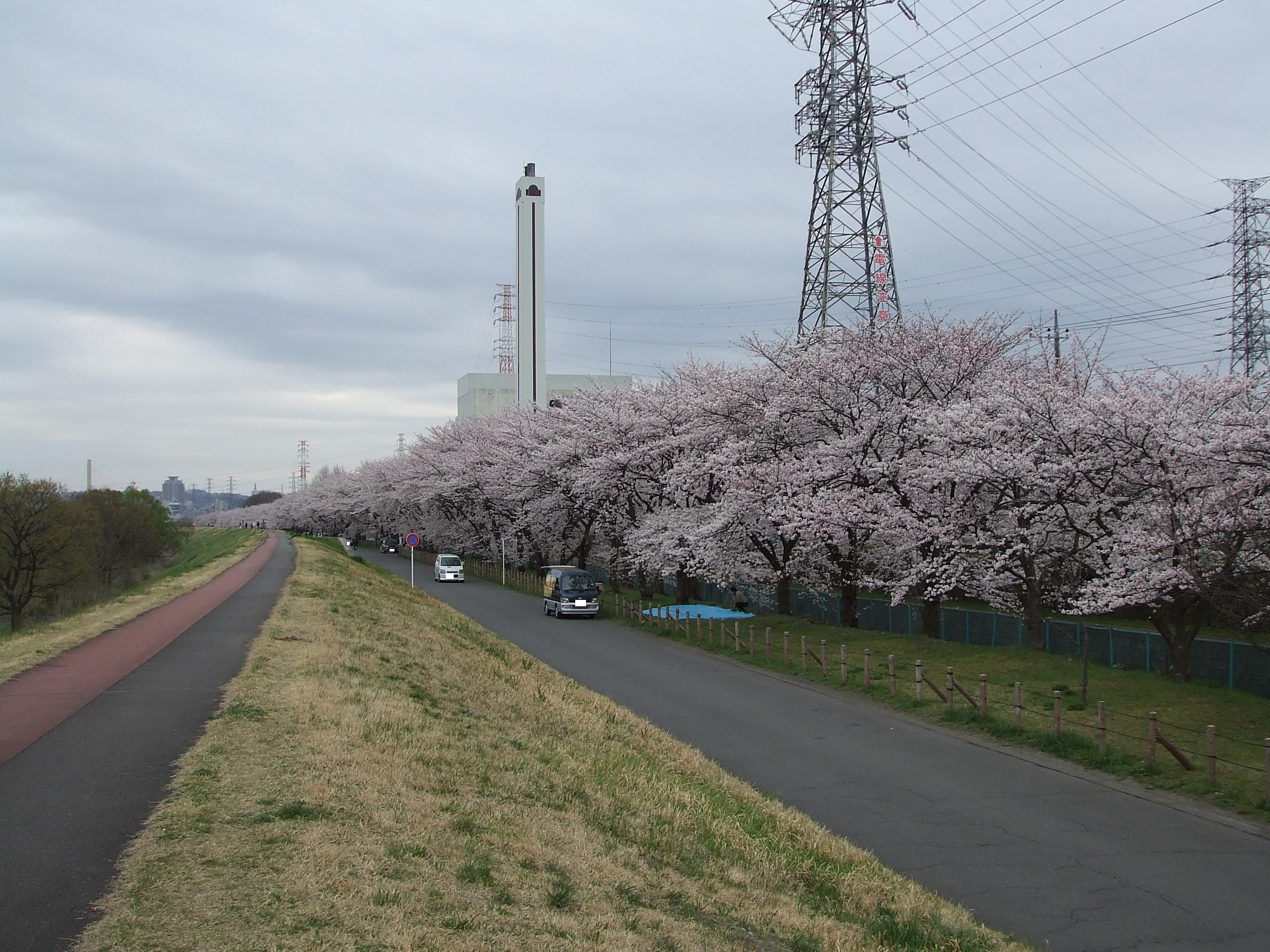 Cherry blossom along the Ne River in Hino, Tokyo